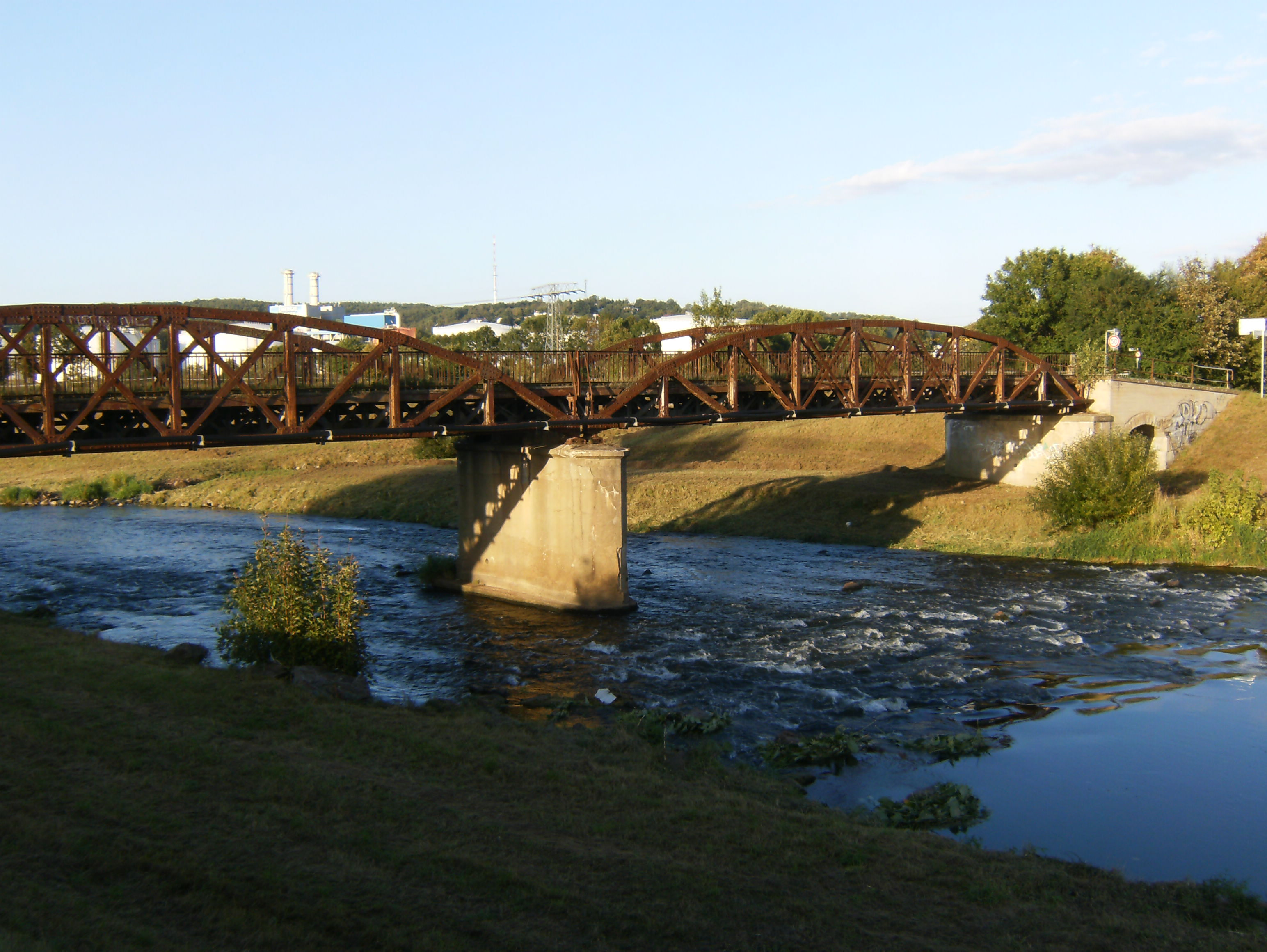 The former "Franzosenbrücke" crossing the Weiße Elster river near Milbitz, a quarry of Gera (damaged in autumn 2011).